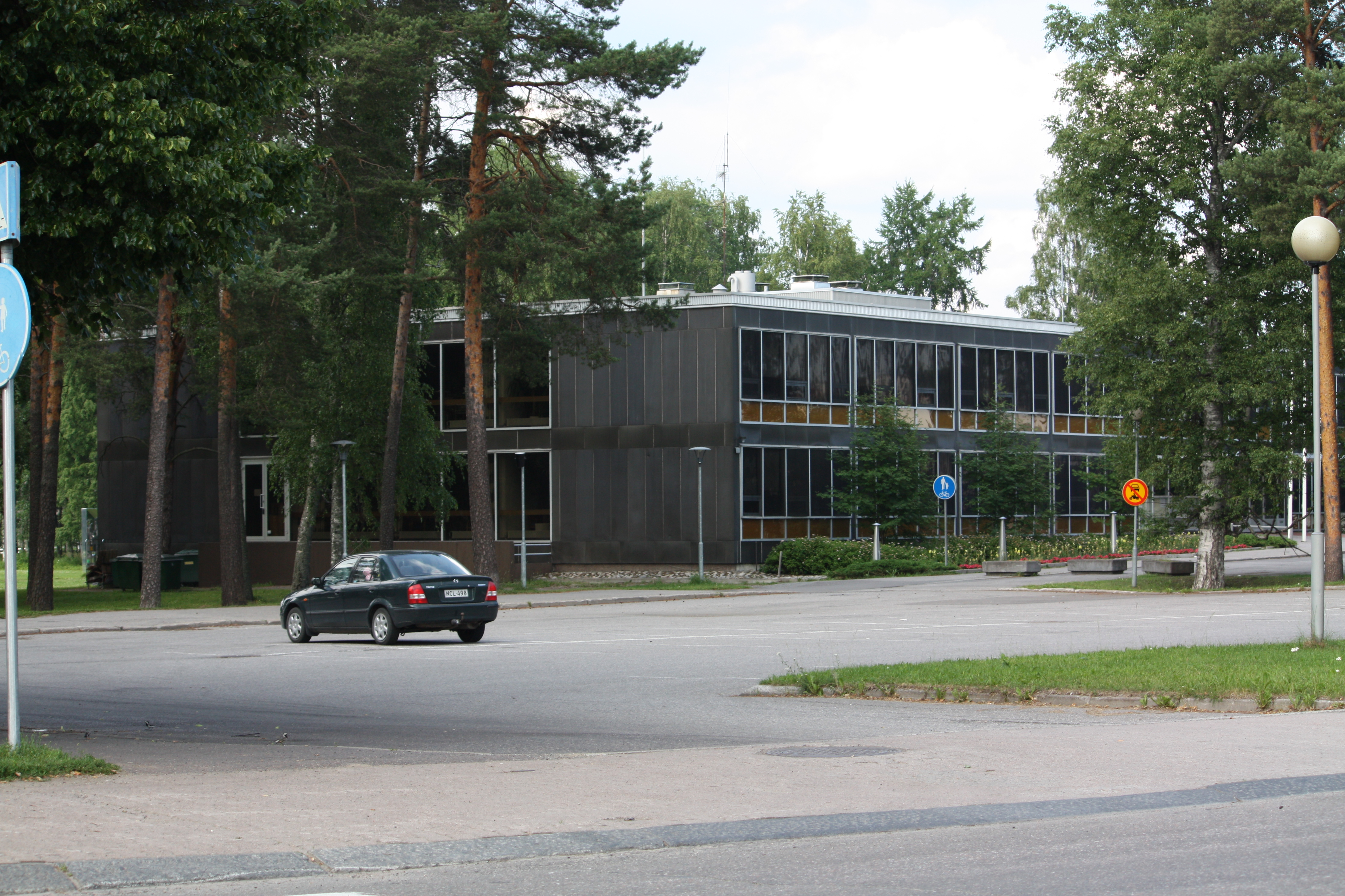 The Town Hall of Pieksämäki